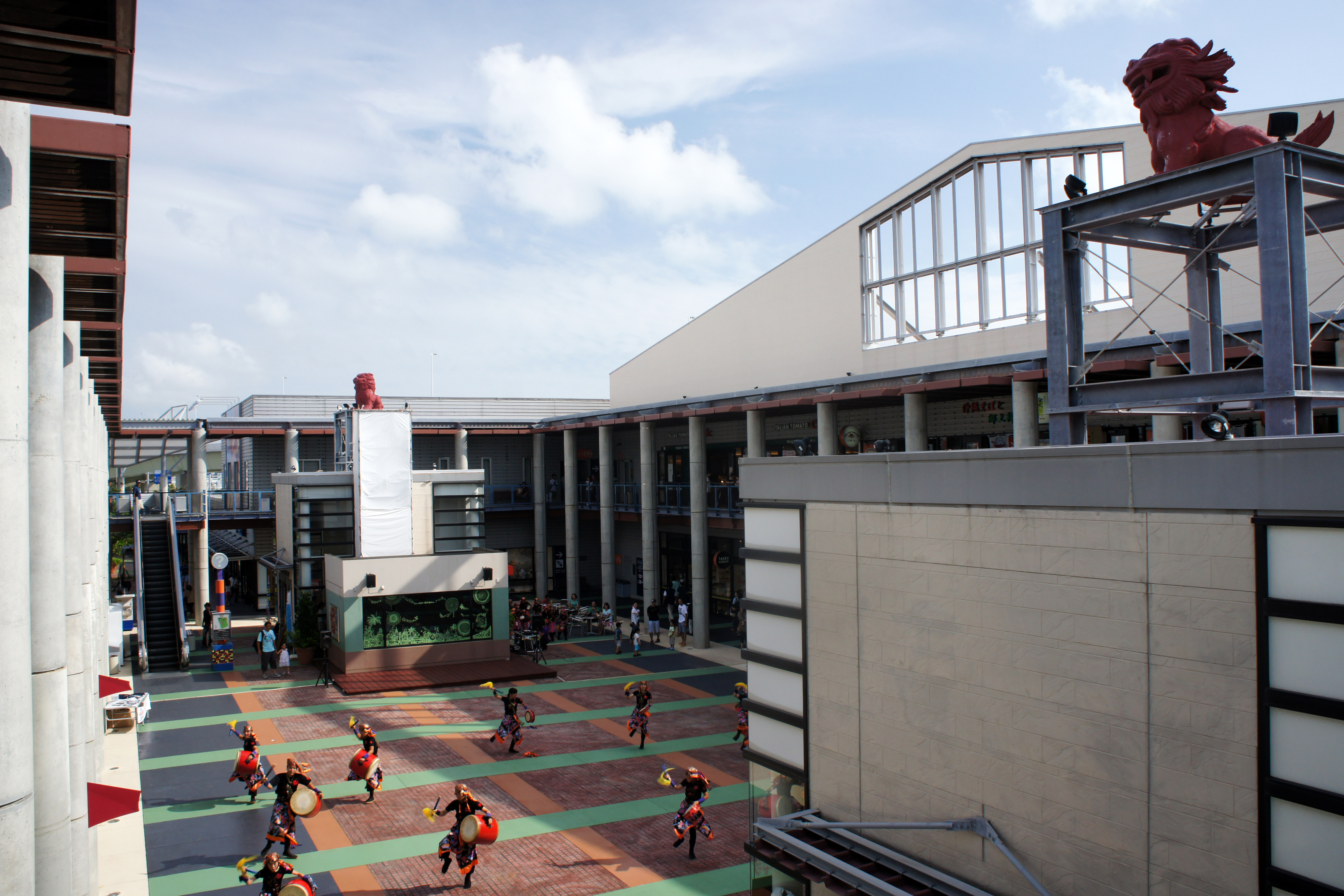 Okinawa Outlet Mall Ashibinaa in Tomigusuku, Okinawa prefecture, Japan.